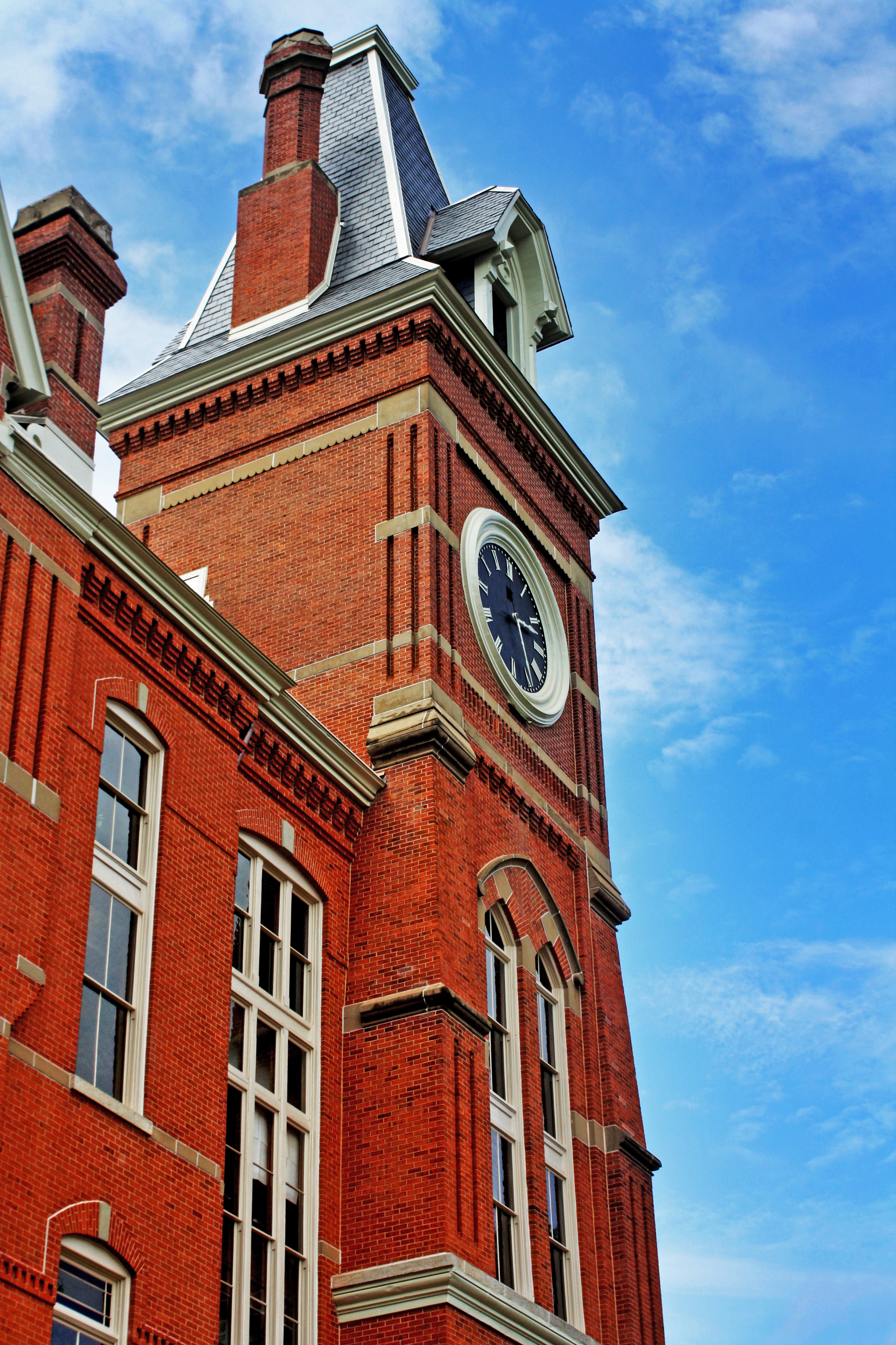 Seney Hall is one of 23 contributing buildings to the Oxford Historic District. Located on the campus of Oxford College of Emory University, it functions as the college's administrative center as well as holding classrooms. The bell in the clock tower, casted in 1796, is the oldest permanent monument owned by Emory University.